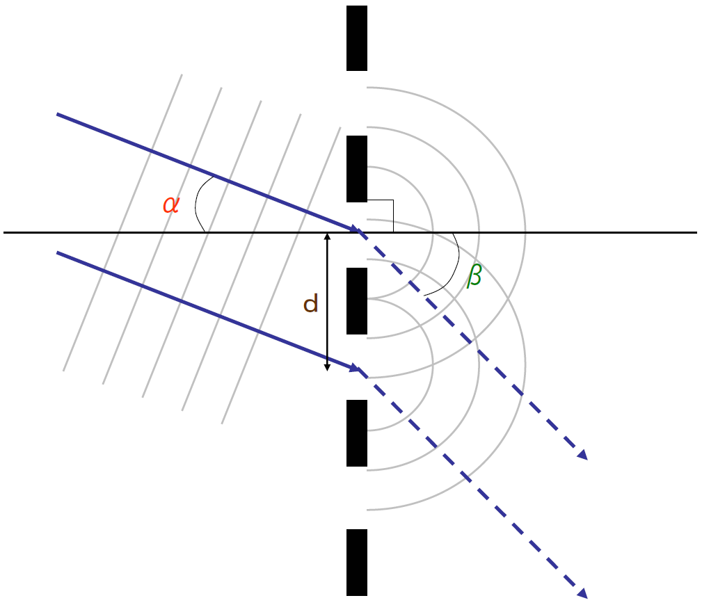 For explanation of diffraction grating.